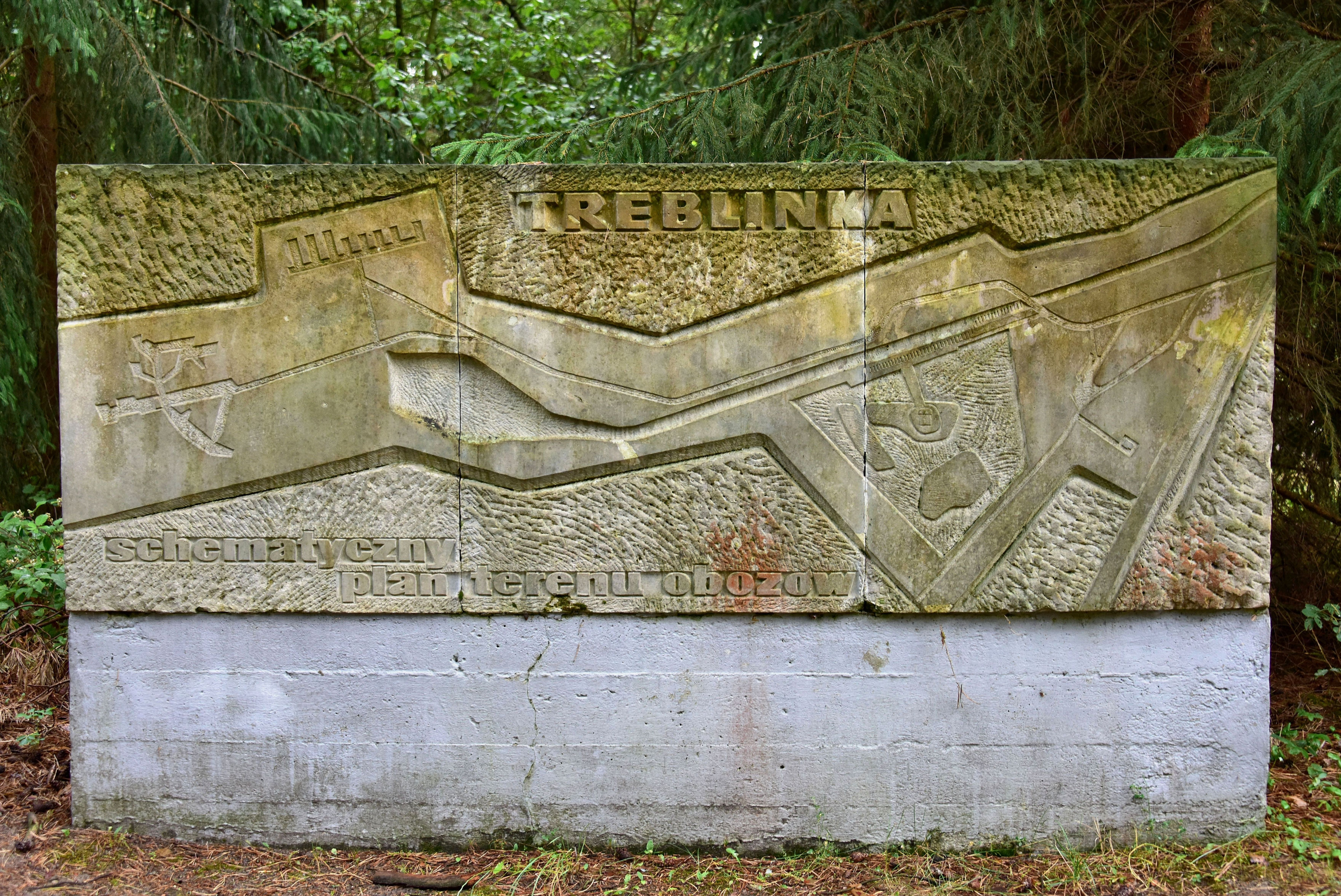 Stone board with the map of Treblinka I&II camps at the entrance to Treblinka II (death camp) site